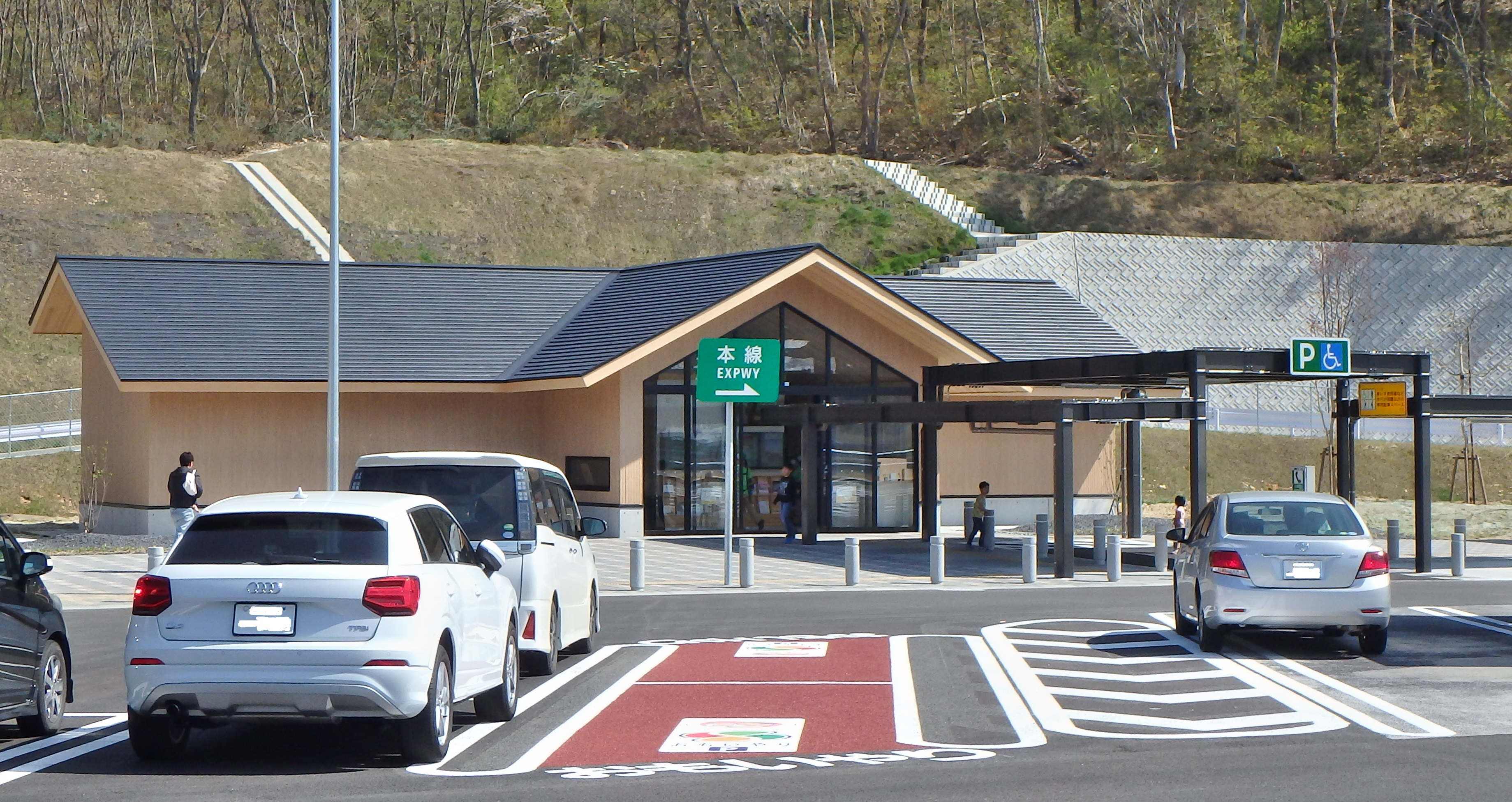 Nanyō Parkig Area for Fukushima Pref., Yamagata Prefecture,Japan